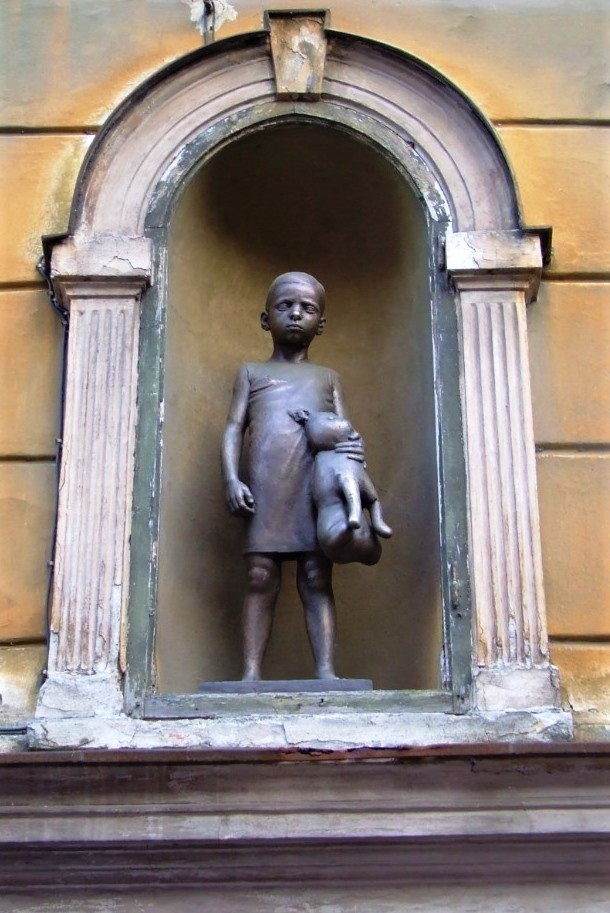 Statue of Little Girl, bronze, height 115 cm, year: 2011, placed in niche of a house in Jateční Street, Cheb (author: Miro Žáčok)